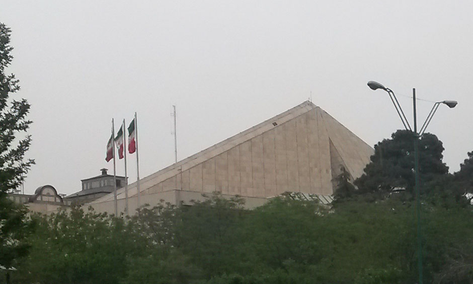 Iran parliament